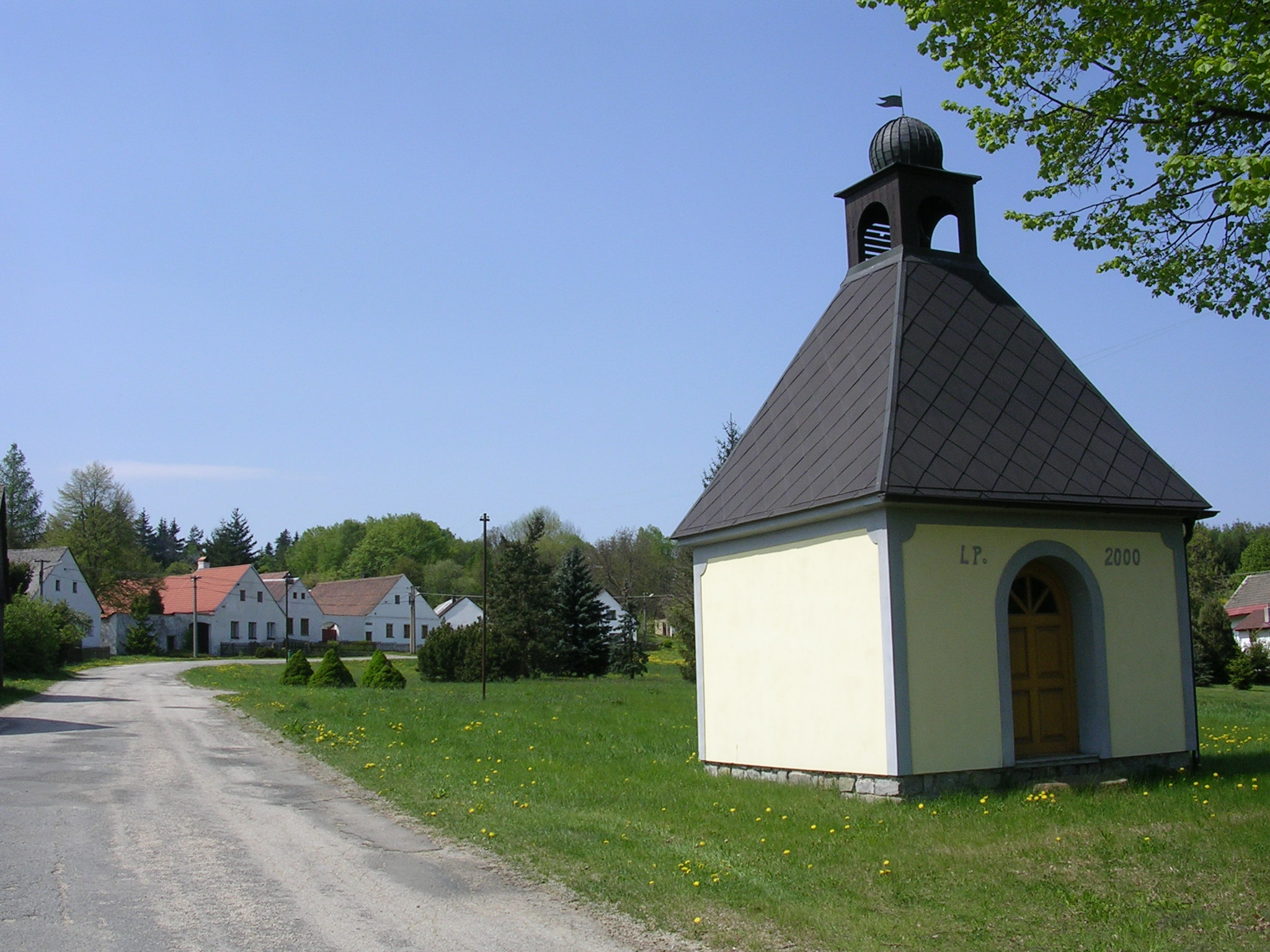 Volfířov-Radlice, South Bohemian Region, the Czech Republic.